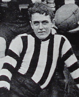 Photograph of Jim Baxter from 1907-1909